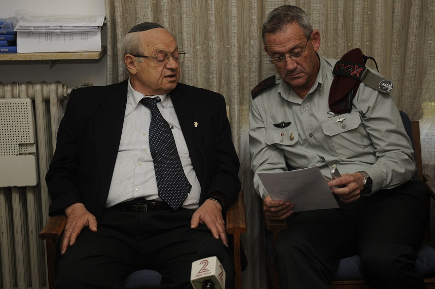 May 1, 2011. "Each Jew should see himself as if he or she survived the Holocaust." Thus said the IDF Chief of the General Staff, Lt. Gen. Benny Gantz, today during a visit to Justice David Frankel and Mr. Tommy Yehuda Bok, both Holocaust survivors, on Israel's national Holocaust Memorial Day. Pictured: Lt. Gen. Benny Gantz and Justice David Frankel. Lt. Gen. Gantz as well as other senior officers of the IDF participated in various ceremonies commemorating the Holocaust and honoring its survivors today, including a visit to the "Yad Vashem" museum. For more details, click here.